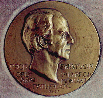 Ernst Neumann (1834 - 1918 was Physician (Pathology and Hematology) at the University of Koenigsberg/ Prussia, todays Kaliningrad. He described for the first time 1868 the bone marrow as blood forming organ and the common Stem Cell for all blood cells. The scientist of the medal was Stanislaus Cauer (1867-1943). The original golden medal is lost in Koenigsberg 1945 - Bronze Medals exists in the FNS see below